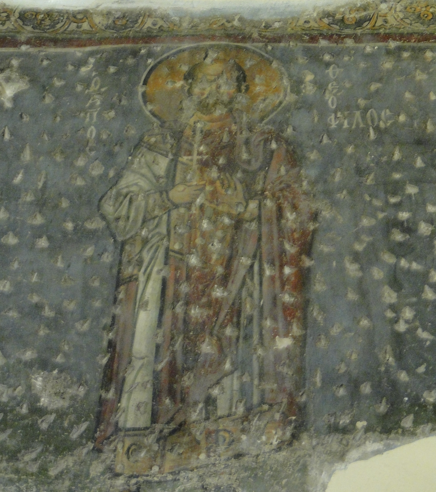 13th century fresco from the church of the Acheropoietos.